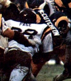 Minnesota Vikings defensive tackle Alan Page (left) tackling Los Angeles Rams running back Lawrence McCutcheon (right) in the 1977 NFC Divisional Playoff Game on December 26, 1977.